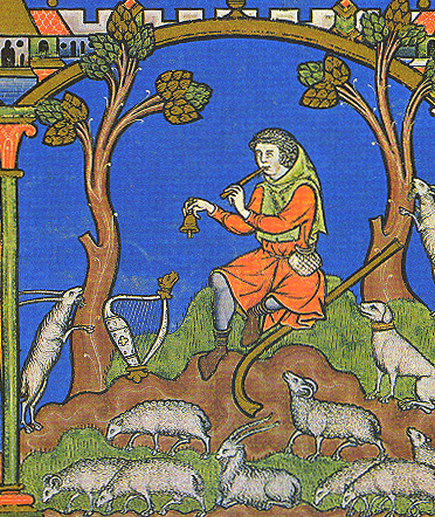 David, as a young man, playing pipe and bell as he watches his sheep in the pasture.